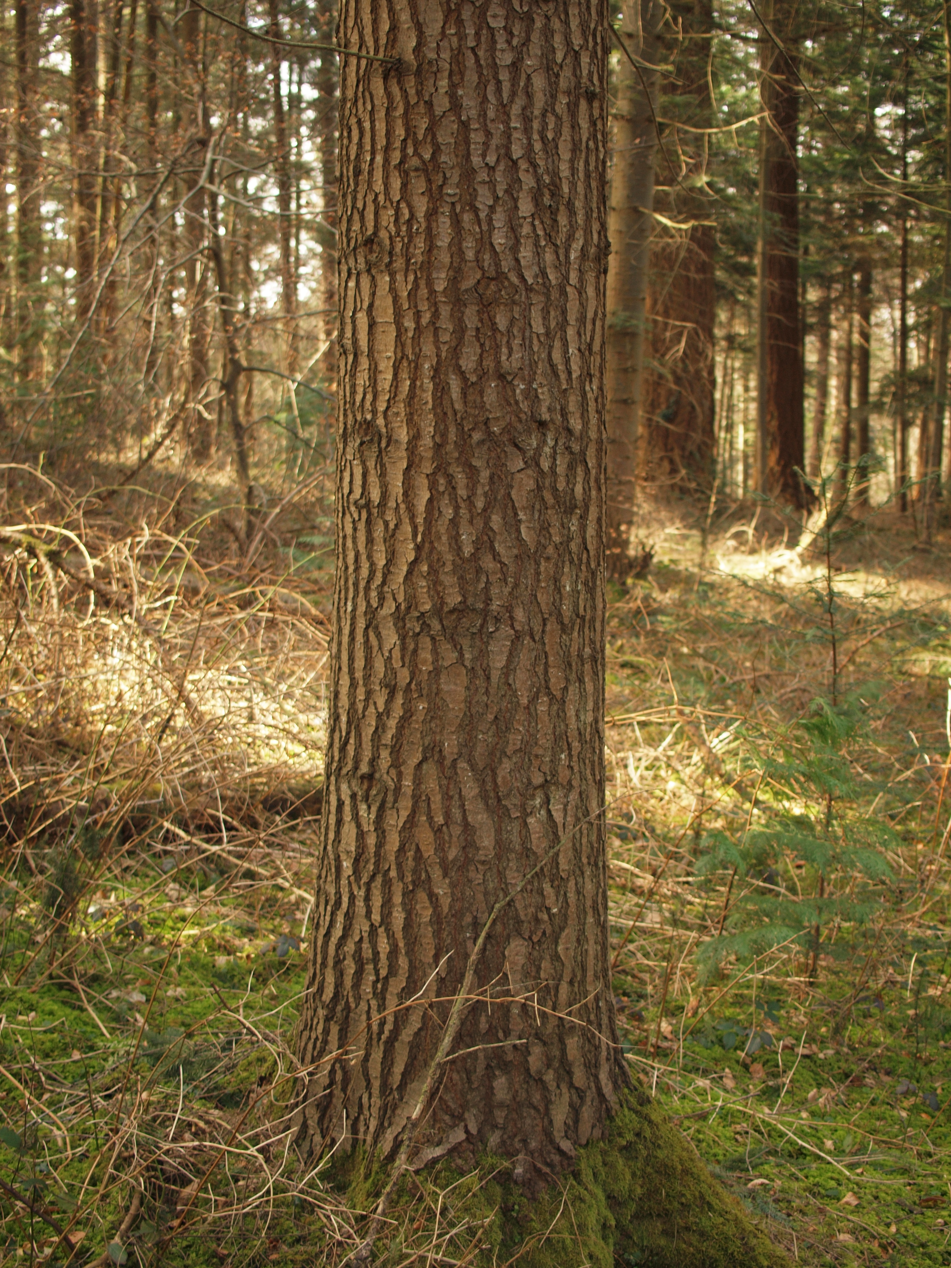 Abies magnifica trunk and bark